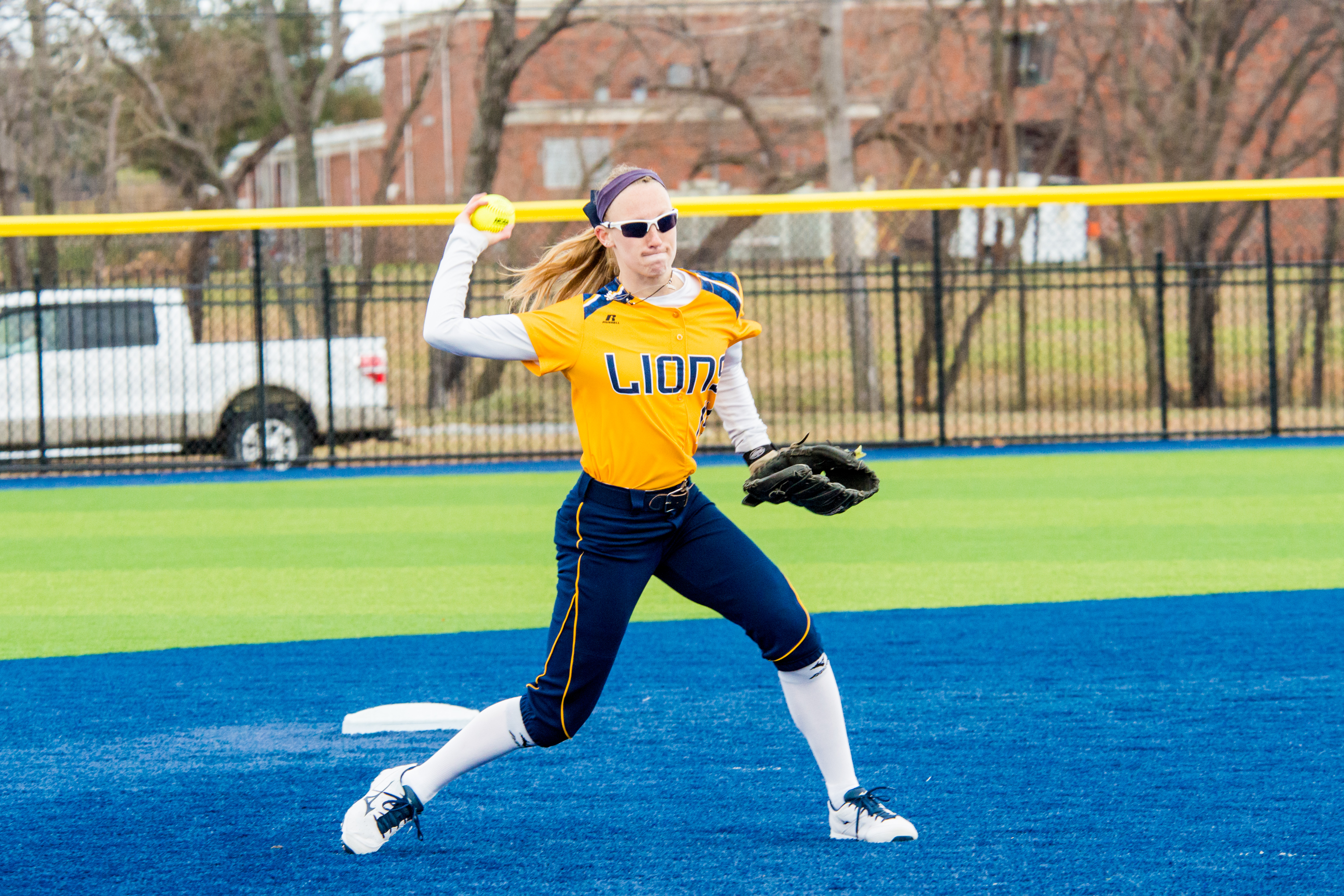 Athletics-SFTB vs St Eds-4862.jpg 2015 Texas A&M–Commerce Lions softball team